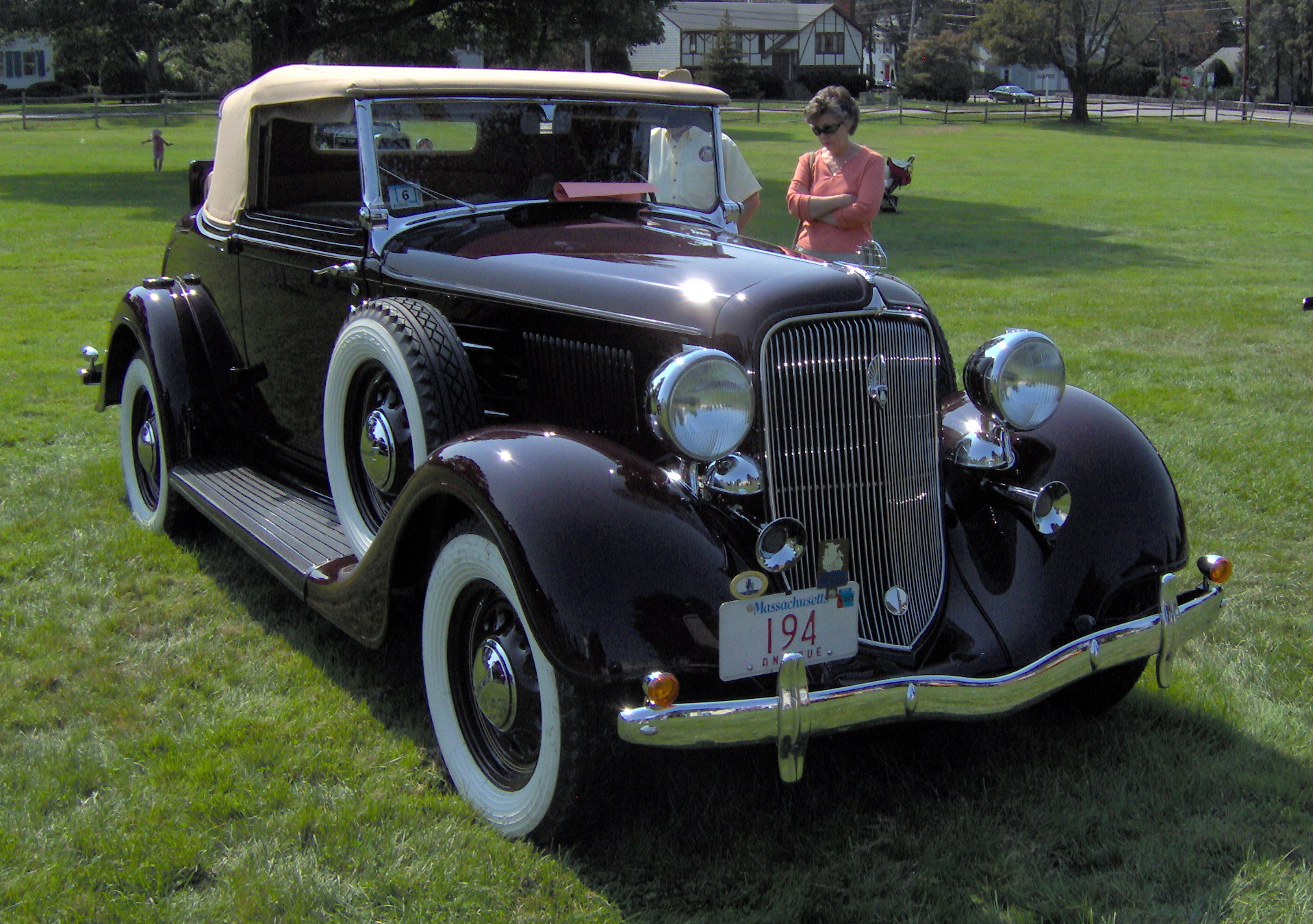 1934 Plymouth PE DeLuxe convertible coupe